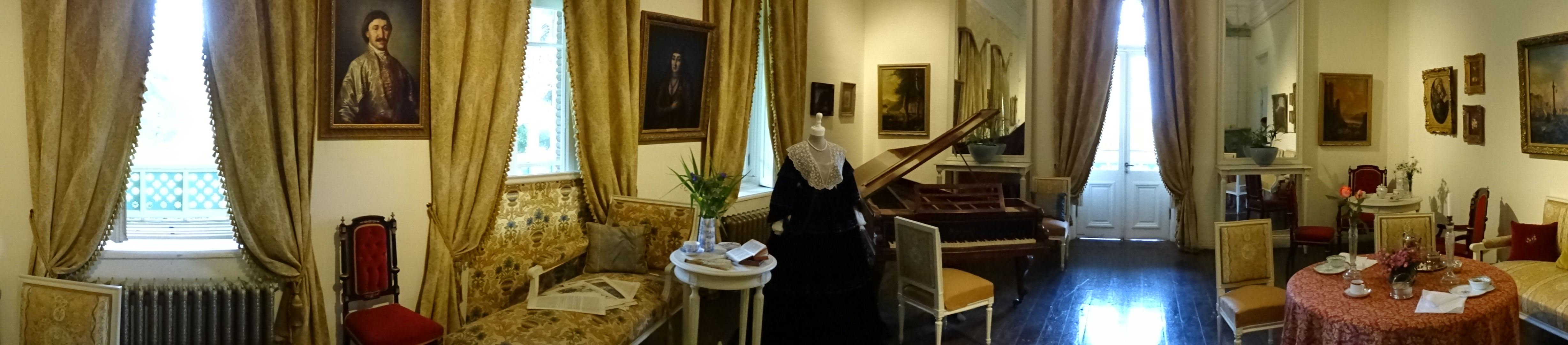 Panorama of Interior of Chavchavadze Family Estate - Tsinandali - Near Telavi - Georgia